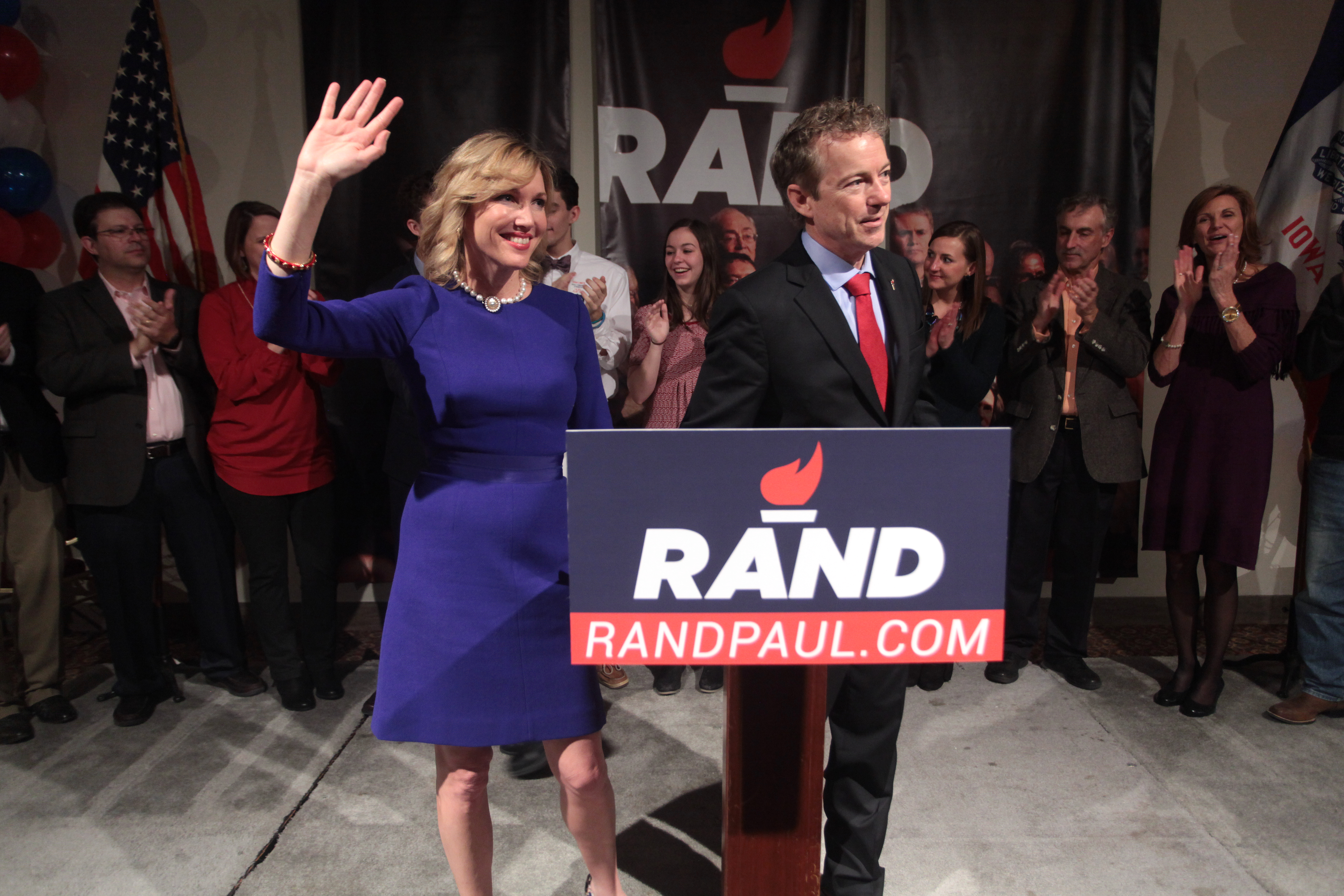 Rand Paul and Kelley Paul speaking at an event in Des Moines, Iowa, the night of the Iowa caucus.